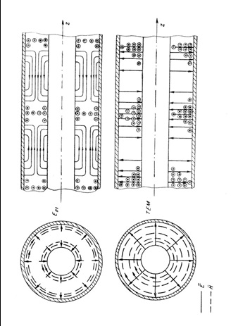 defshth